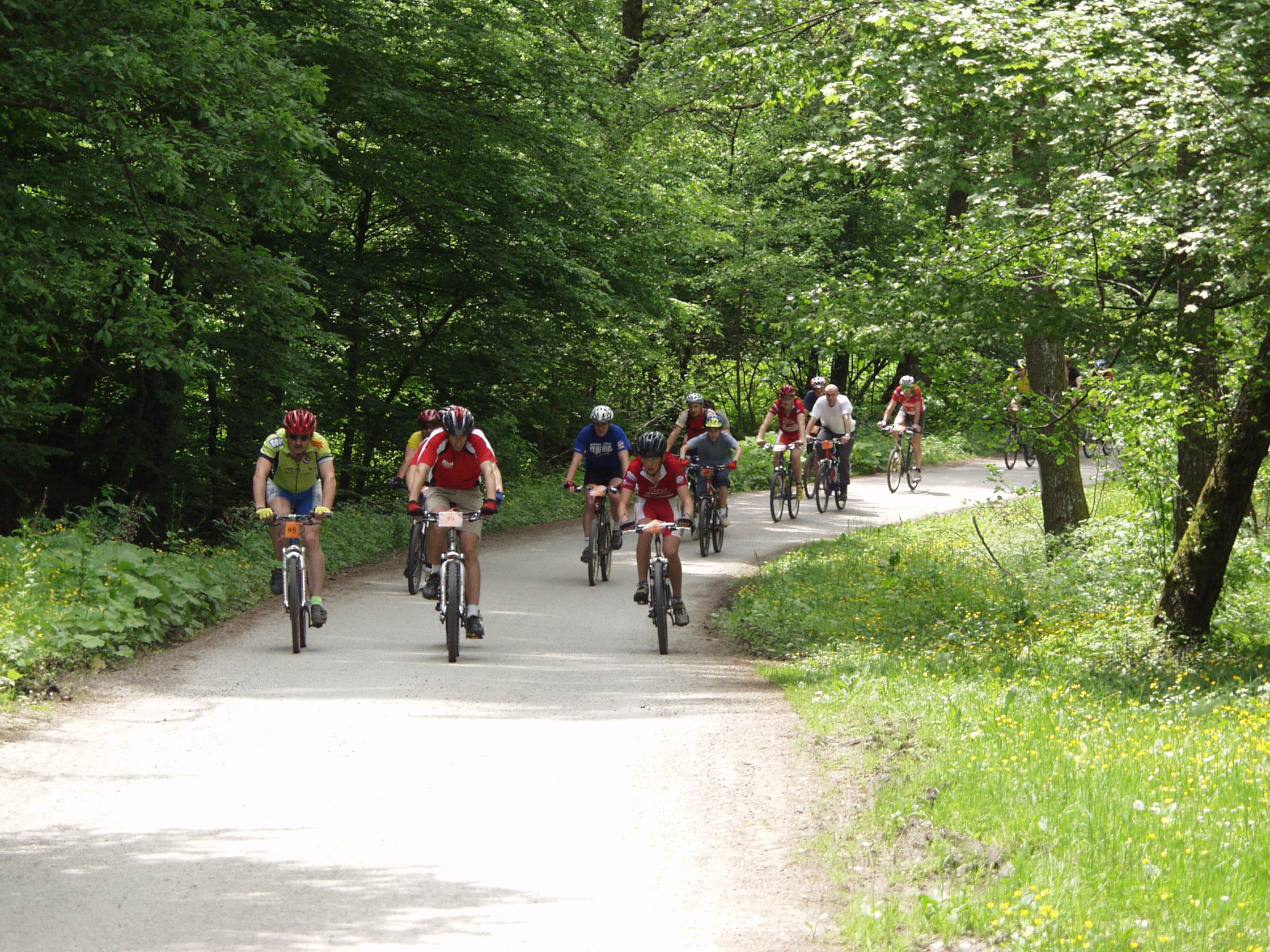 Enjoying in Papuk riding bike